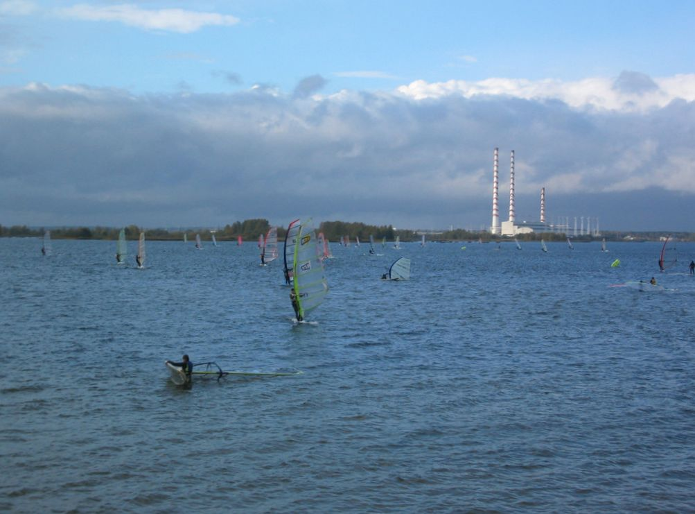 Elektrėnai Reservoir with Elektrėnai power plant in the distance in 2003